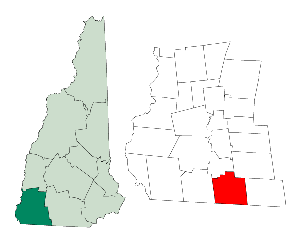 Map of a municipality in Cheshire County, New Hampshire